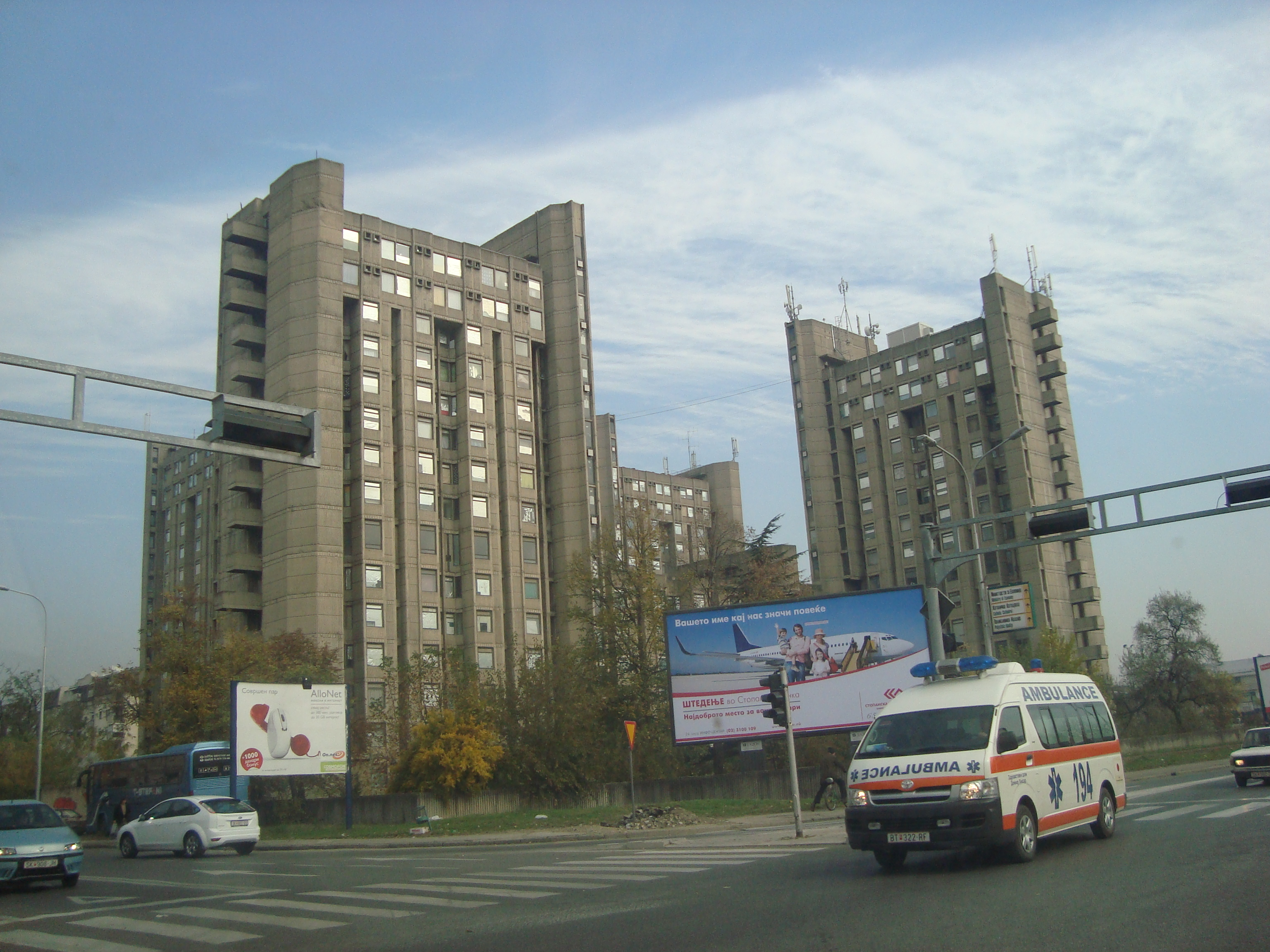 The Student's Dormitory "Goce Delčev" in Skopje, Macedonia.